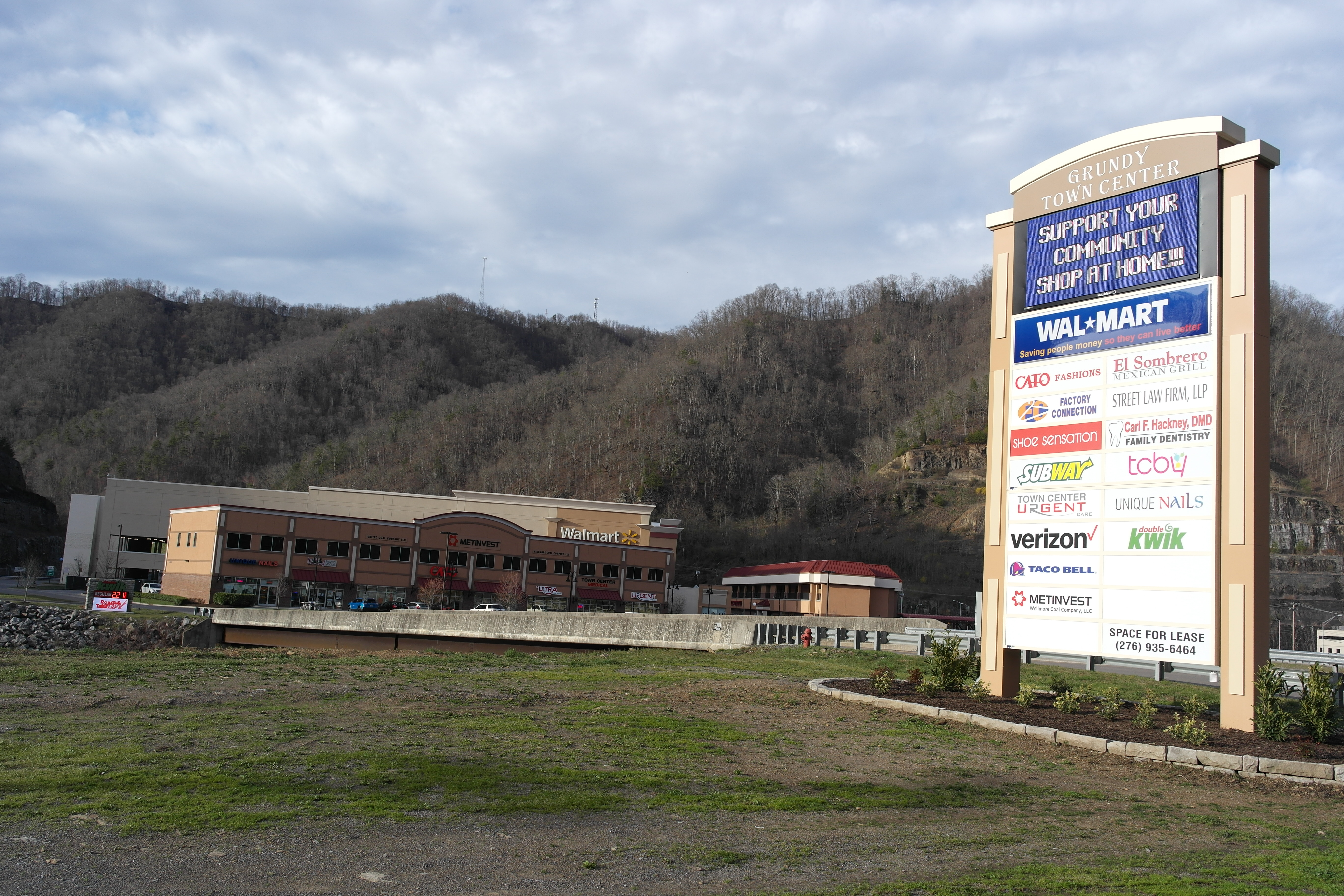 Grundy Town Center sign in Grundy, Virginia.